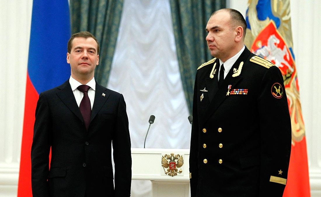 Aleksandr Aleksejevitch Moisejev, Hero of the Russian Federation. Moscow, Kremlin. 21 feb 2011.